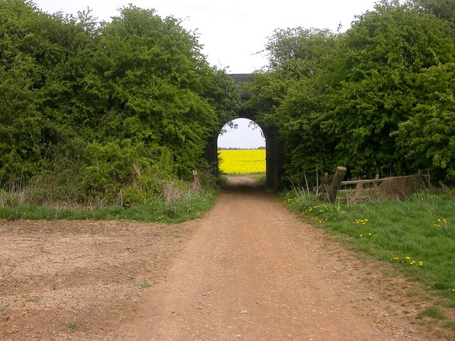 Sulgrave-Great Central Railway Great Central Railway bridge on the track which leads to Coolington Farm.